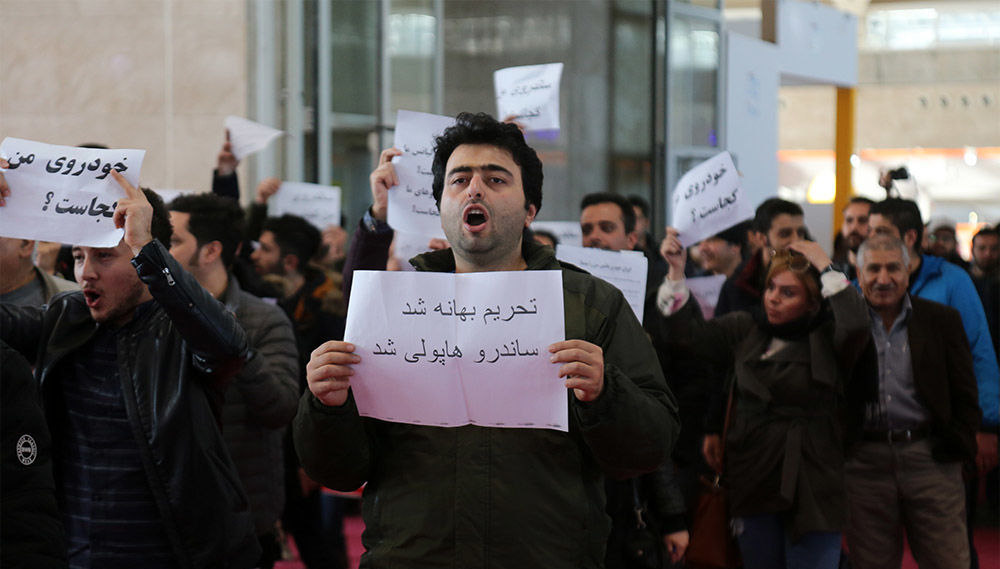 People protesting to Saipa